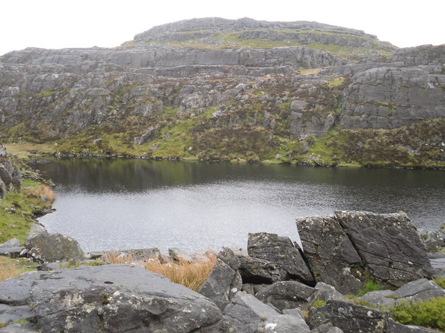 Llyn Du (Northern Rhinogs)